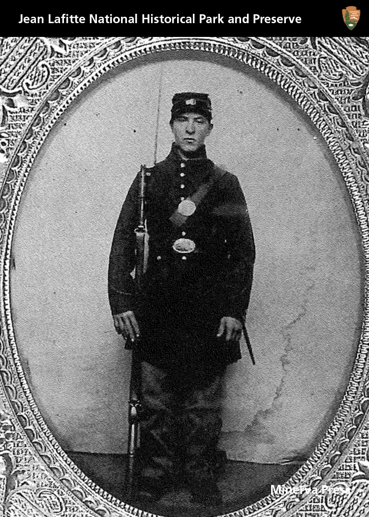 During the Civil War, women could not join the military, so some disguised themselves as men to enlist. Sarah Wakeman became “Lyons Wakeman” and fought in several battles. She is buried at Chalmette National Cemetery. Sarah liked the opportunities she didn’t have as a woman. She wrote, “I am as independent as a hog on the ice.”